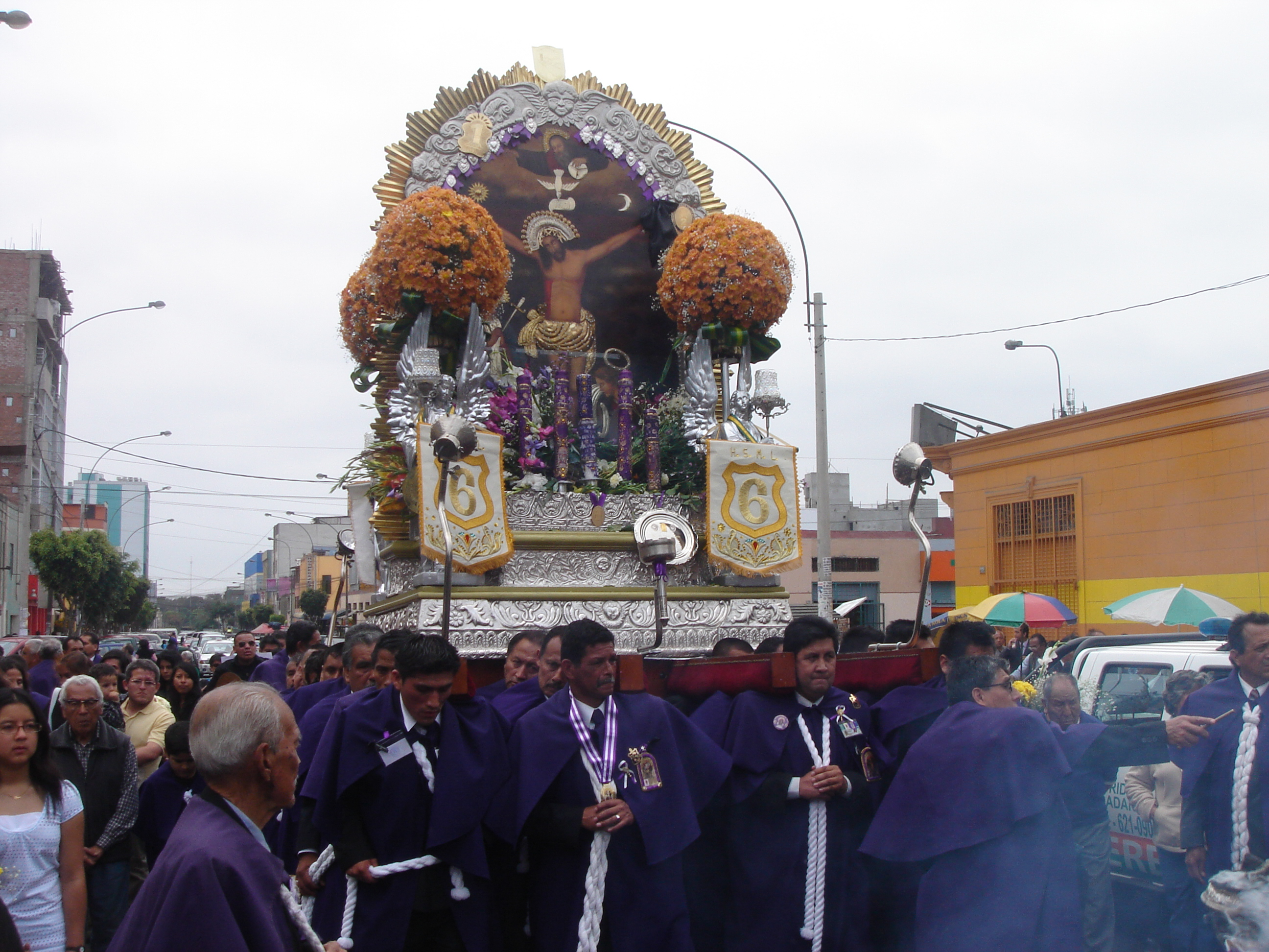 Lord of Miracles procession in Lince District, Lima-Peru.